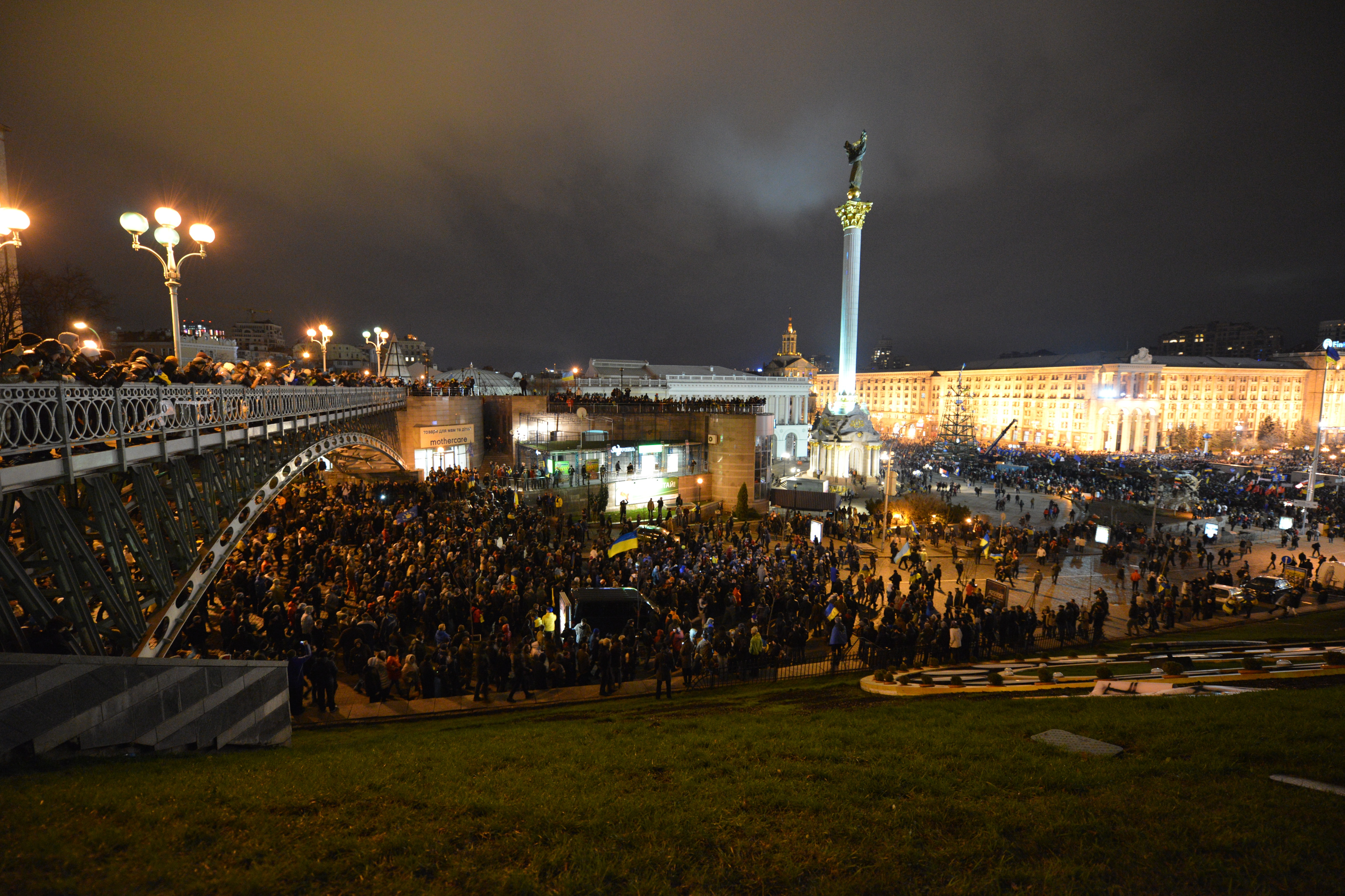 Euro Revolution in Kiev Sunday 1st of December 2013